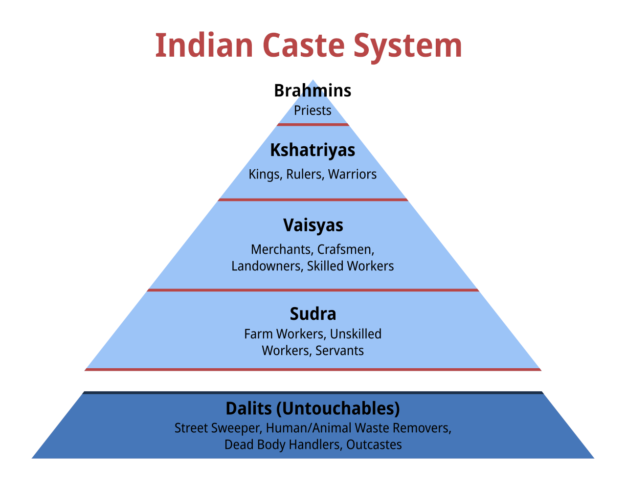 Caste system of Indus valley